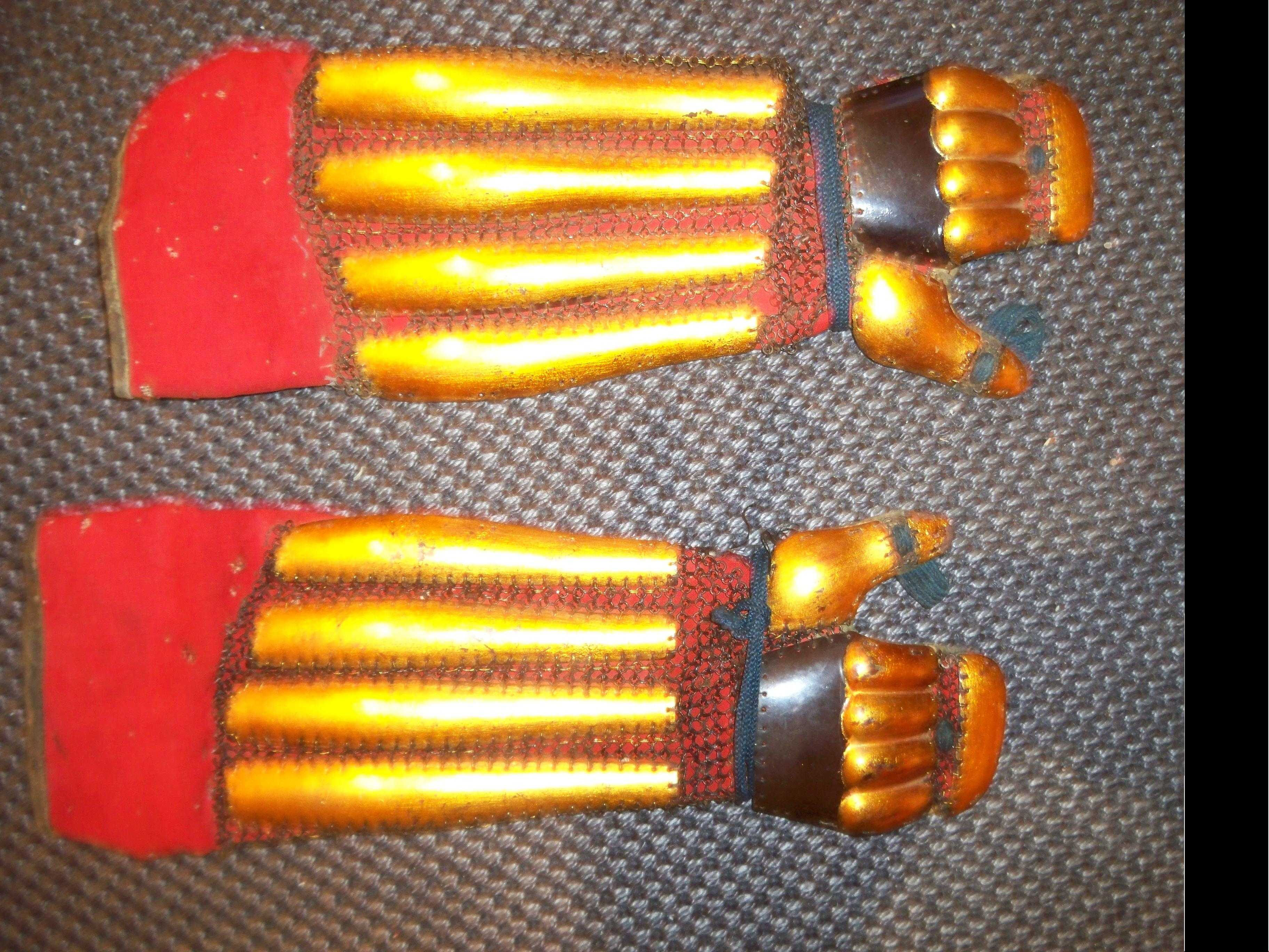 Antique Edo period Japanese (samurai) han kote or half sleeve. Iron armor plates connected by chain armor kusari sewn to a cloth backing.